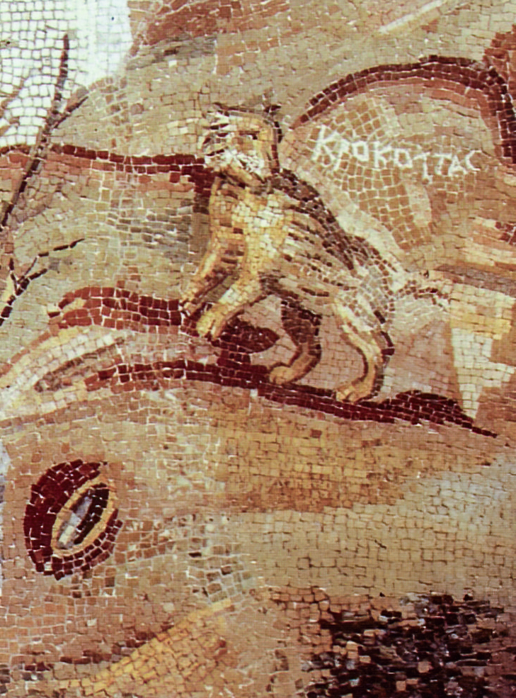 Detail of Nile mosaic from Palestrina (section 3). Museo Nazionale Palestrina, Italy.